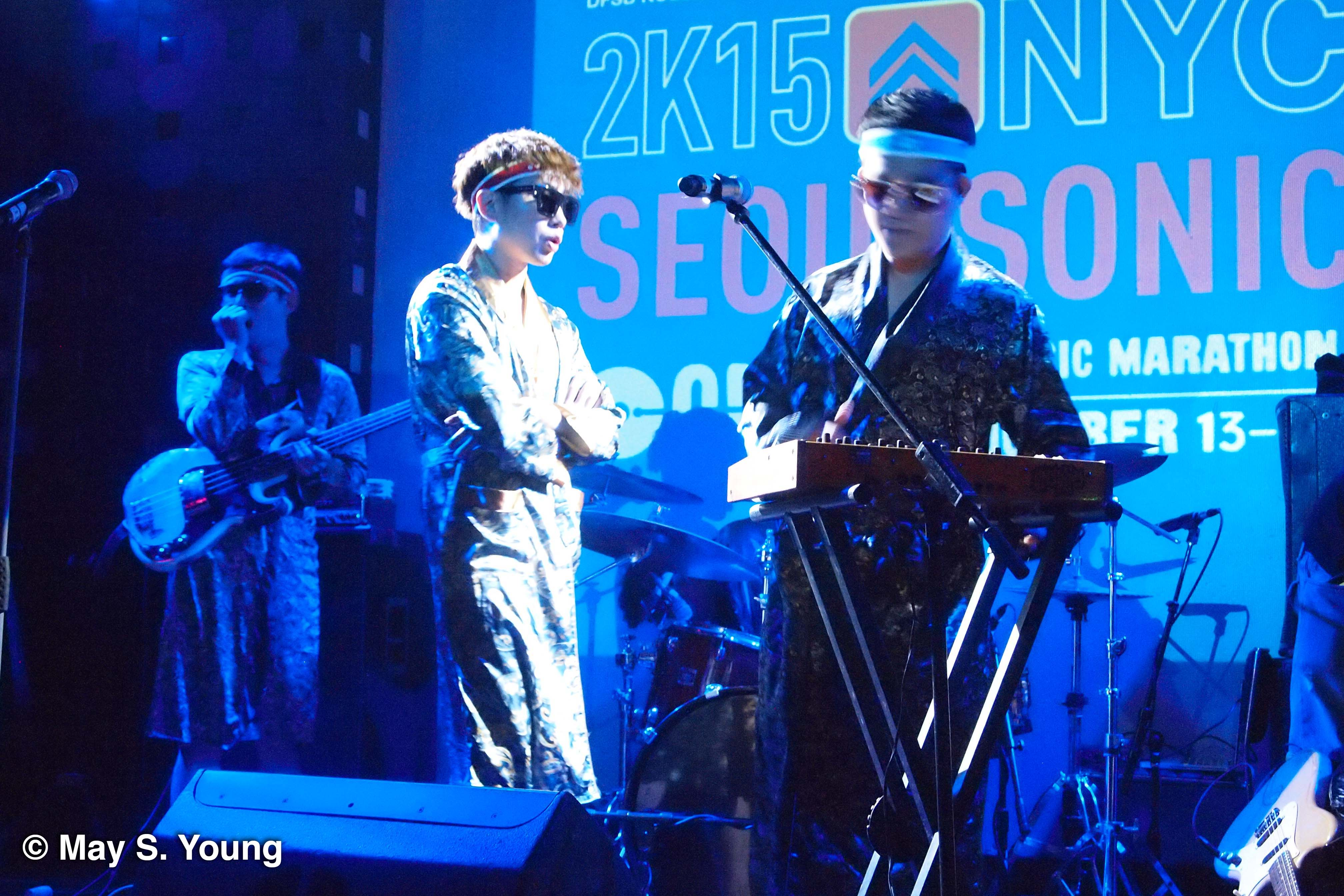 OLYMPUS DIGITAL CAMERA 2K15 SeoulSonic NYC, CMJ Music Marathon